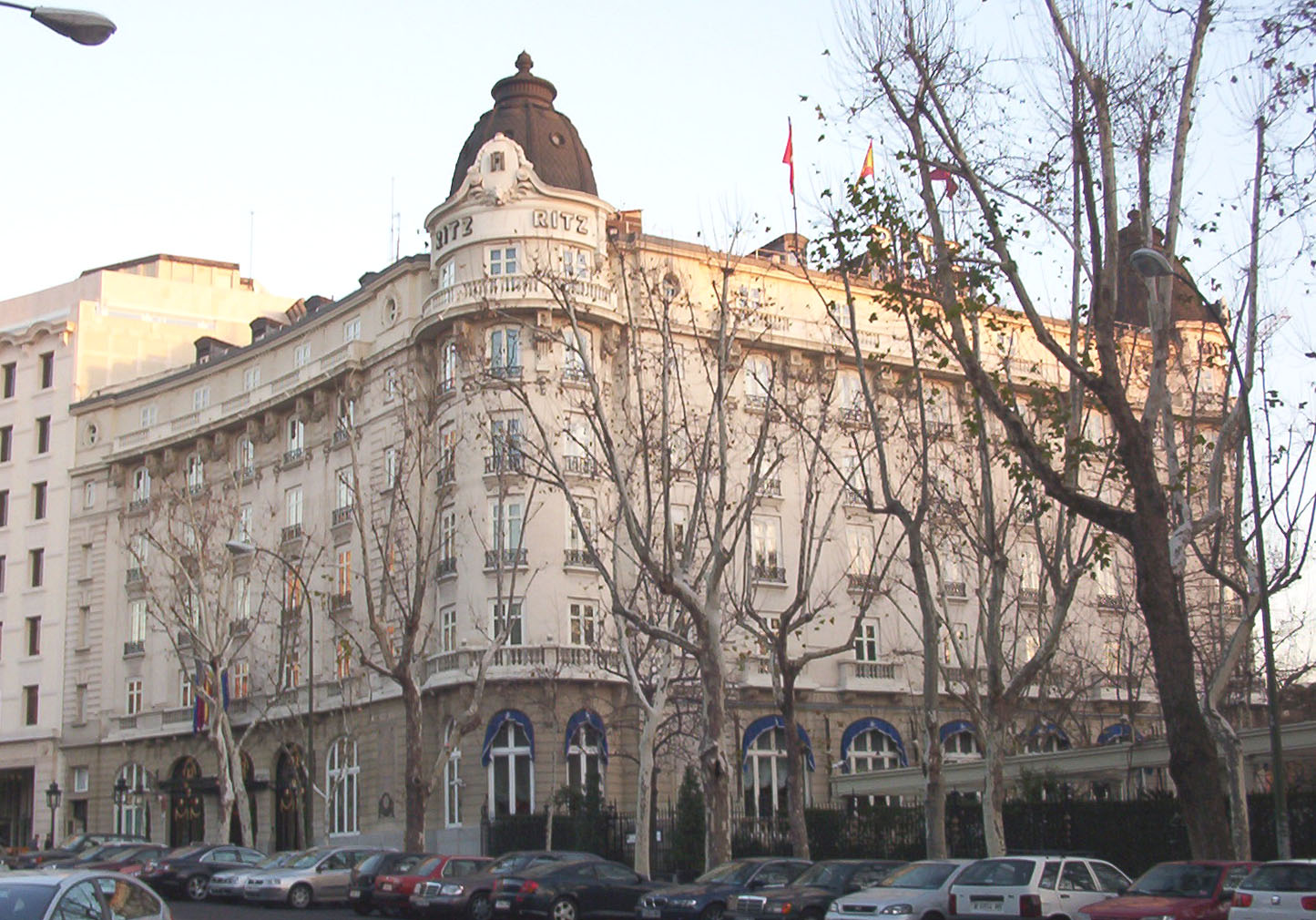 Façade of Ritz Hotel in Madrid (Spain). Projected in 1908 by Charles Frédéric Mewes (1858–1914) and built from 1908 to 1910 under the direction of Luis de Landecho (1852–1941).